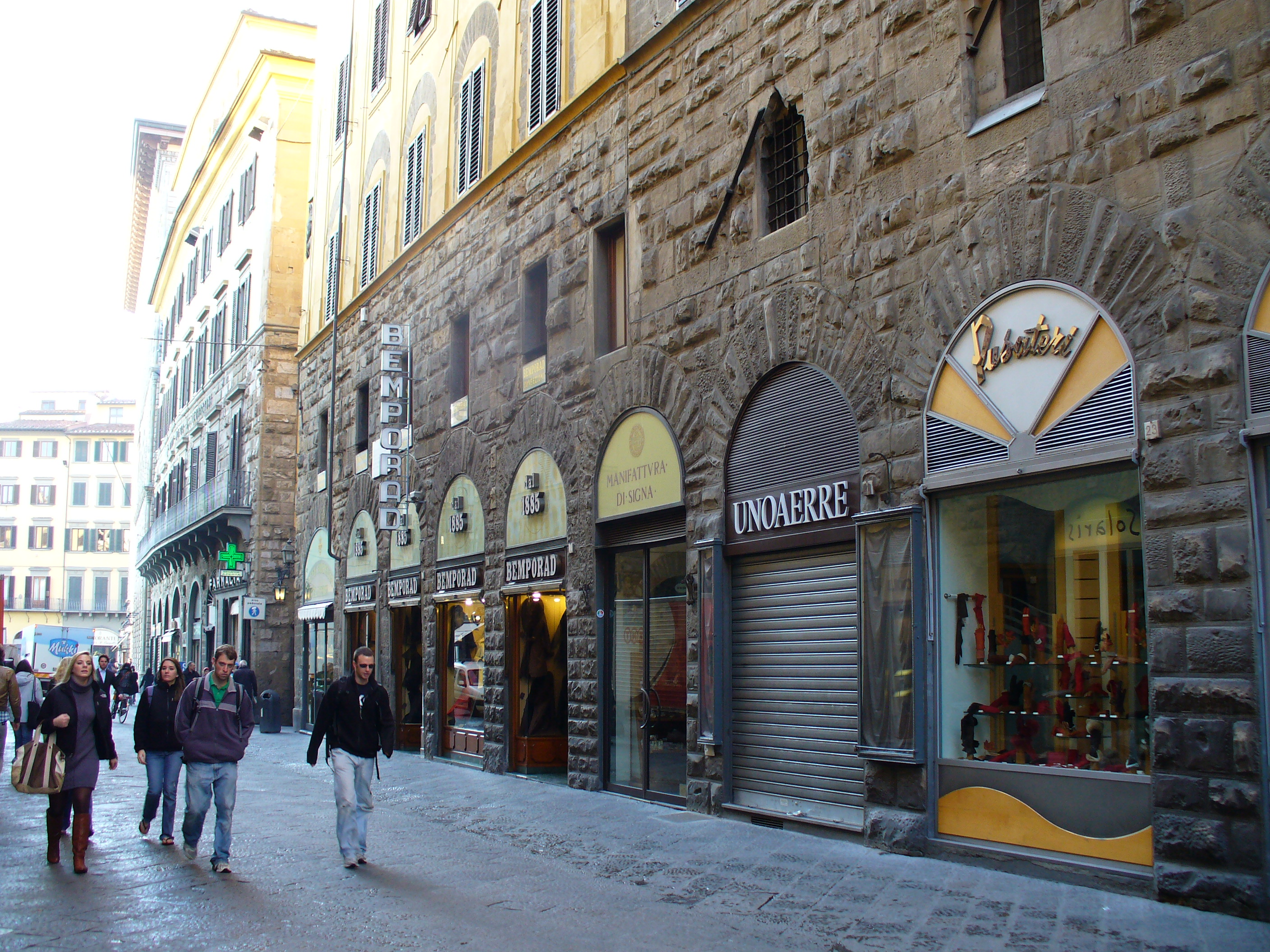 Via dei Calzaiuoli